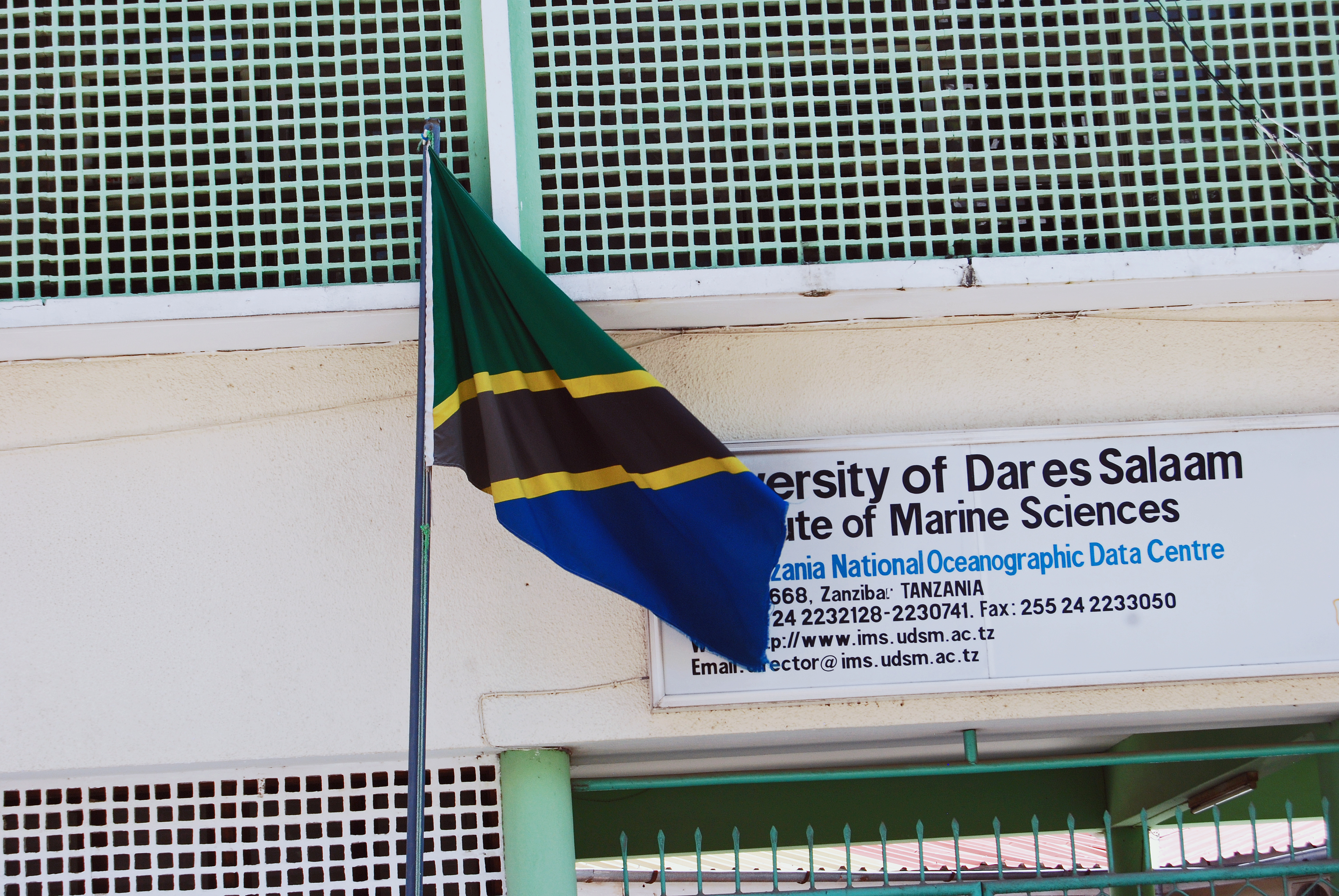 On a walk around Stone Town, Zanzibar / The University of Dar es Salaam's Institute of Marine Sciences was established in 1978 to conduct research and postgraduate and undergraduate training in all aspects of marine sciences.